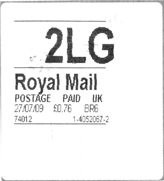 2nd class large Horizon label issued 2009 in the Bromley postcode area (Post town: Orpington).